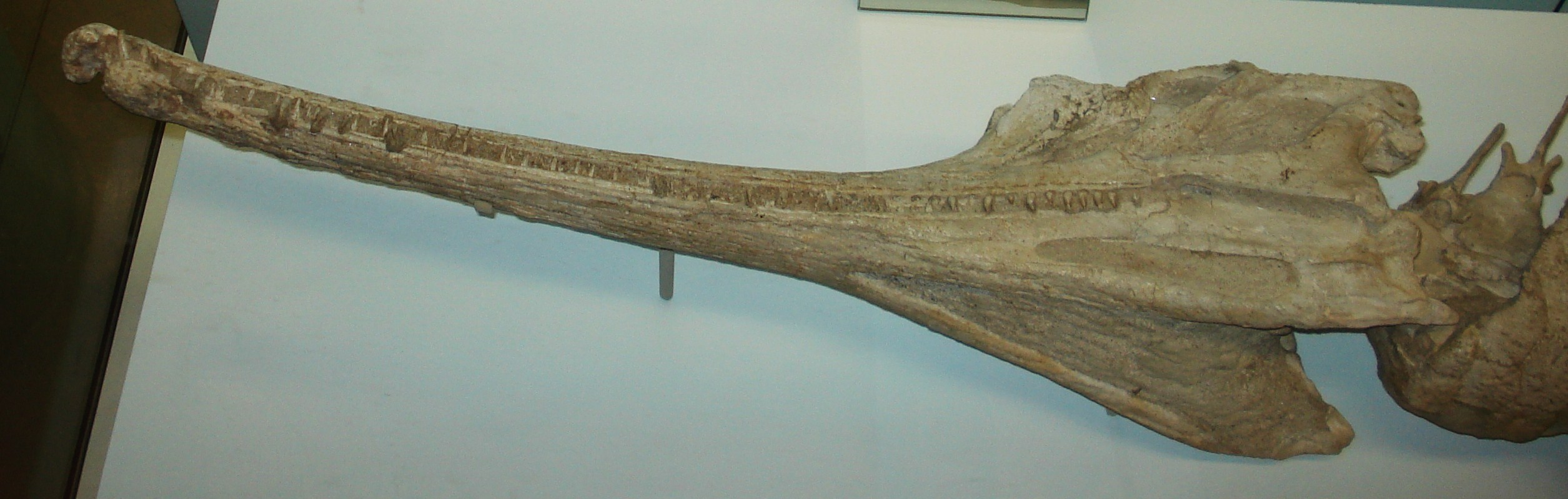 fossil of mystriosuchus